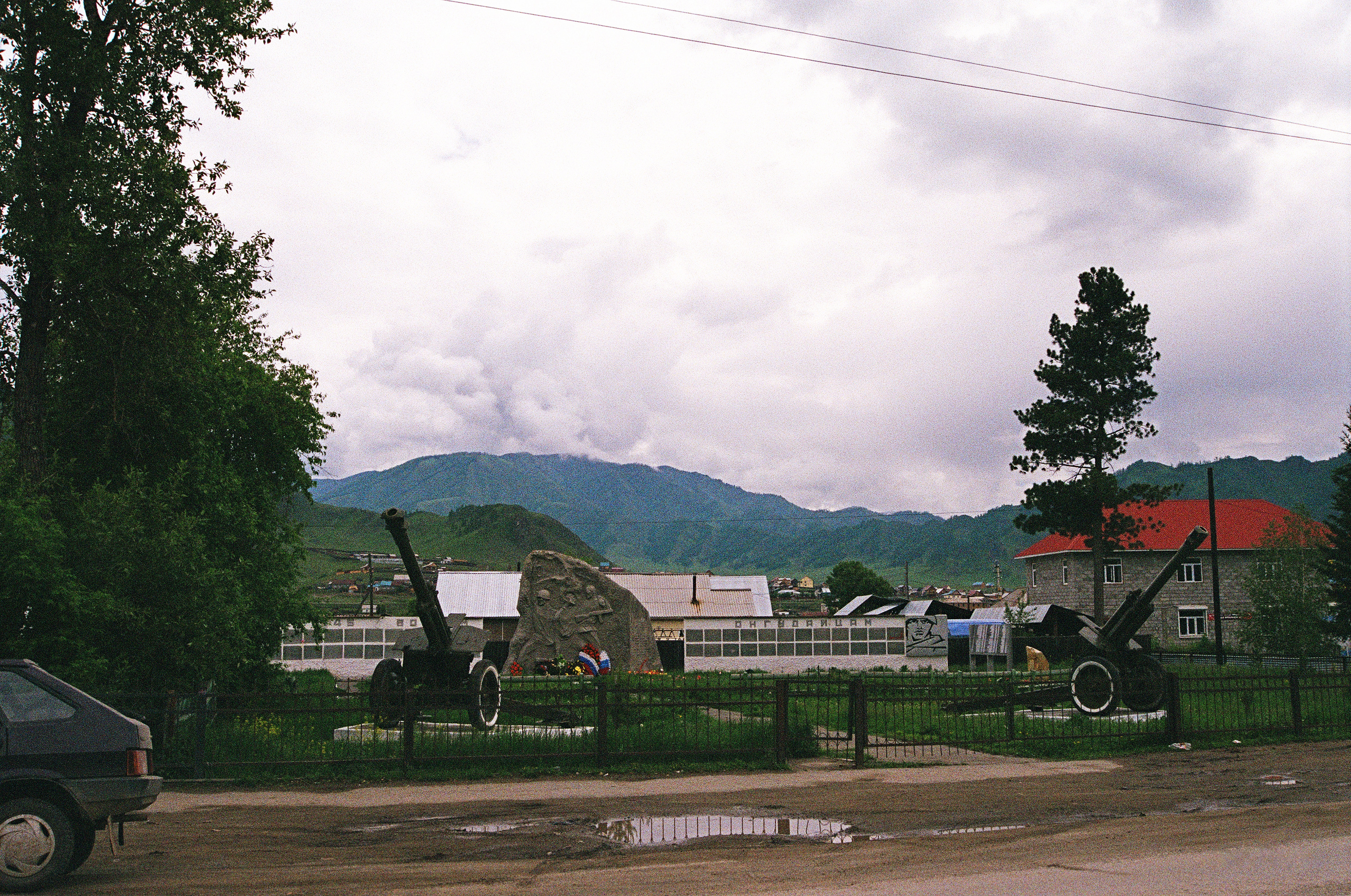 Onguday. Square memory war veterans.